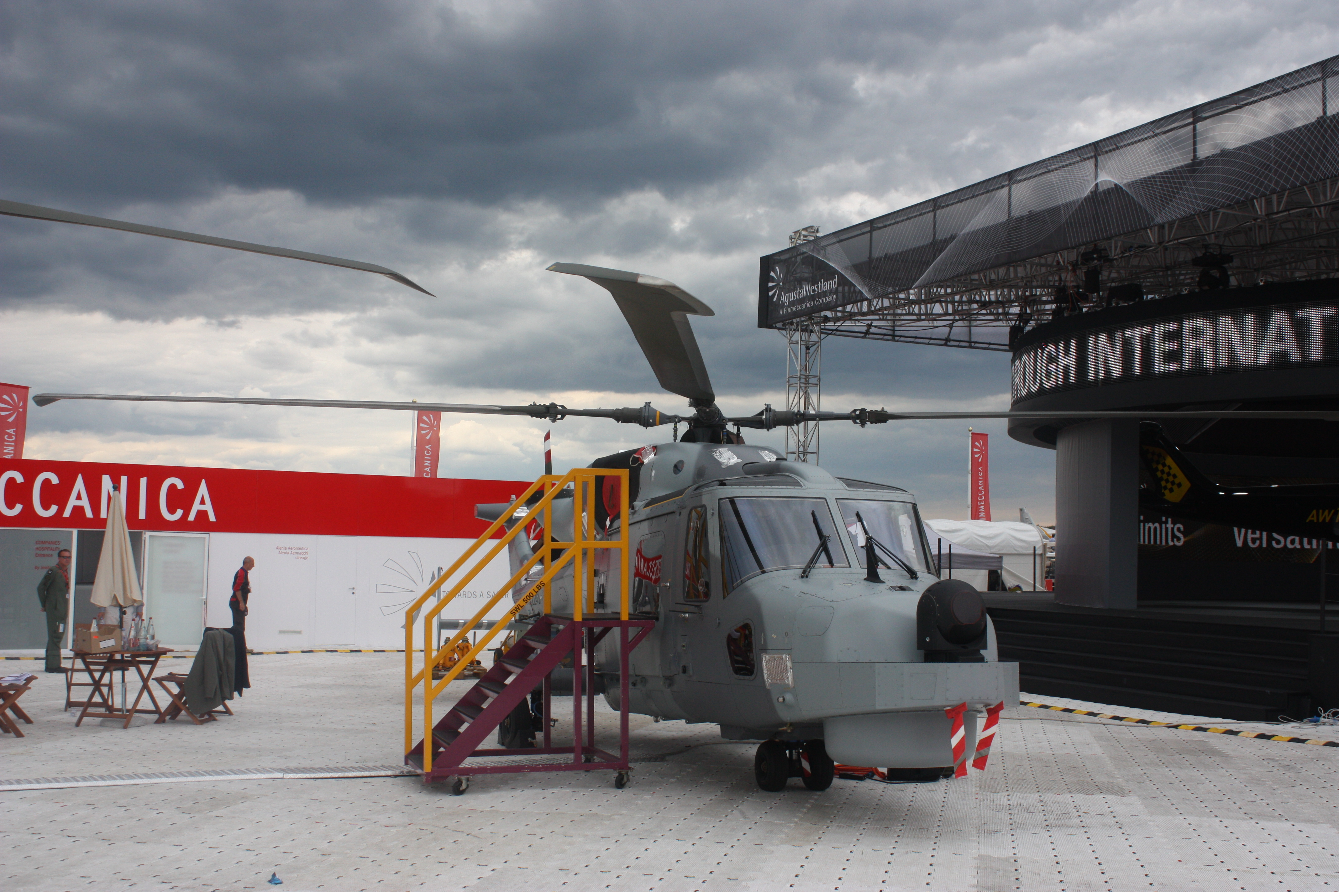 at Farnborough 2010 Air Show